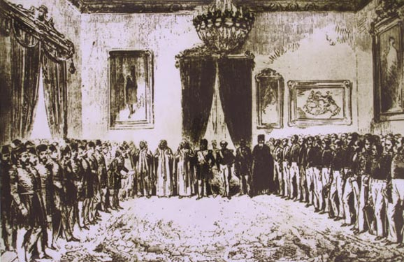 Tunisia : Ceremony_of_declaration_of_Amen_1857